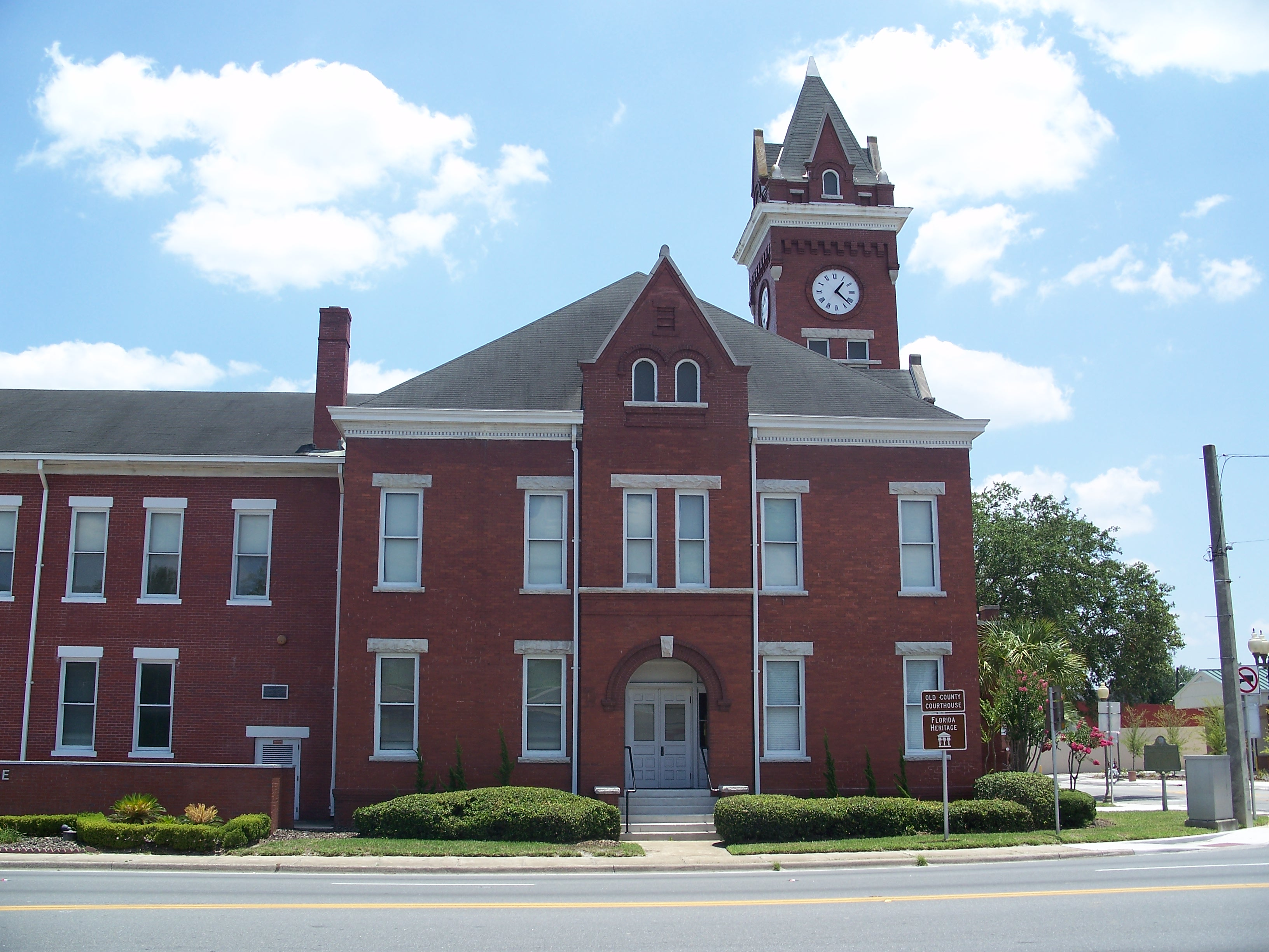 Old Bradford County Courthouse, now part of the Santa Fe Community College Starke Campus, in Starke, Florida